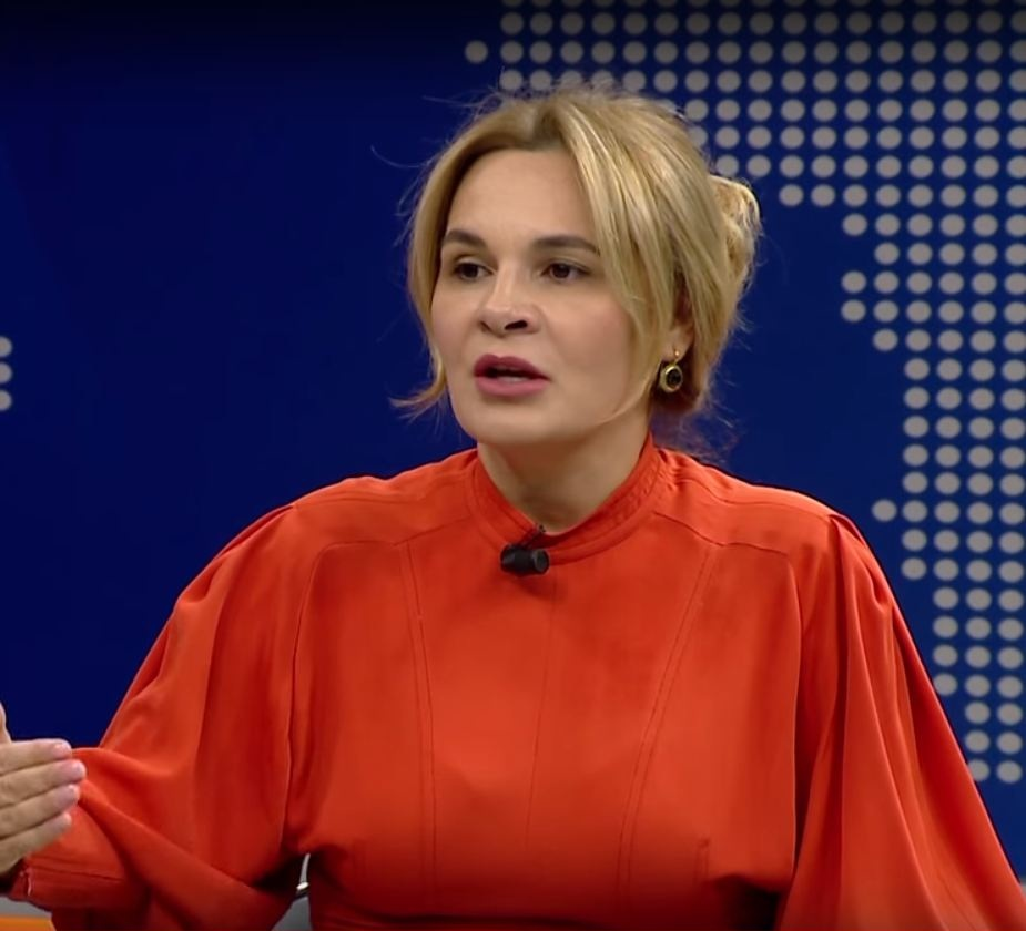 Monika Kryemadhi